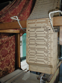 Close-up view of the punch cards used by Jacquard loom on display at the Museum of Science and Industry in Manchester, England. Photograph taken by George H. Williams in July, 2004.